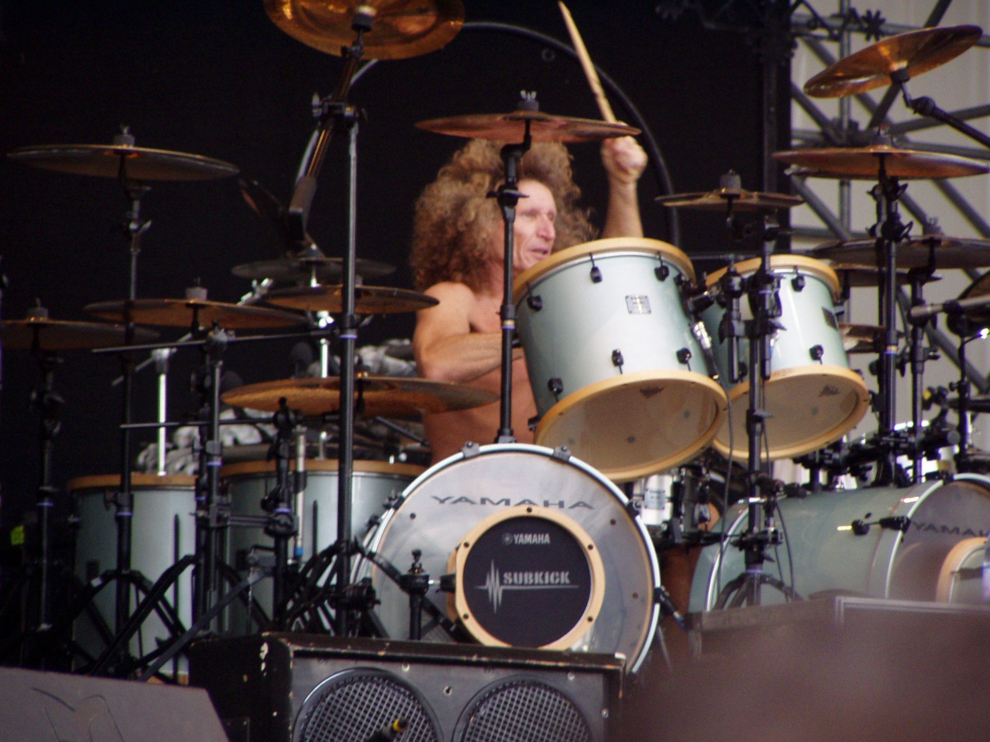 Tommy Aldridge playing with Thin Lizzy at the 2007 Gods of Metal Festival.